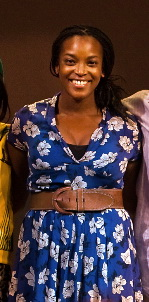 The cast of The Children's Monologues, with Director Danny Boyle at The Old Vic on Sunday 14th November 2010. Fourth from left Wunmi Mosaku